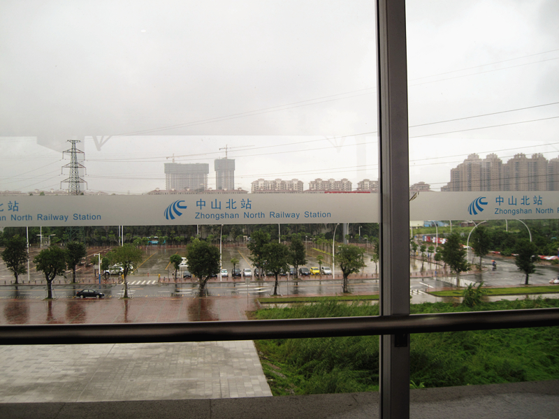 Zhongshan north railway station